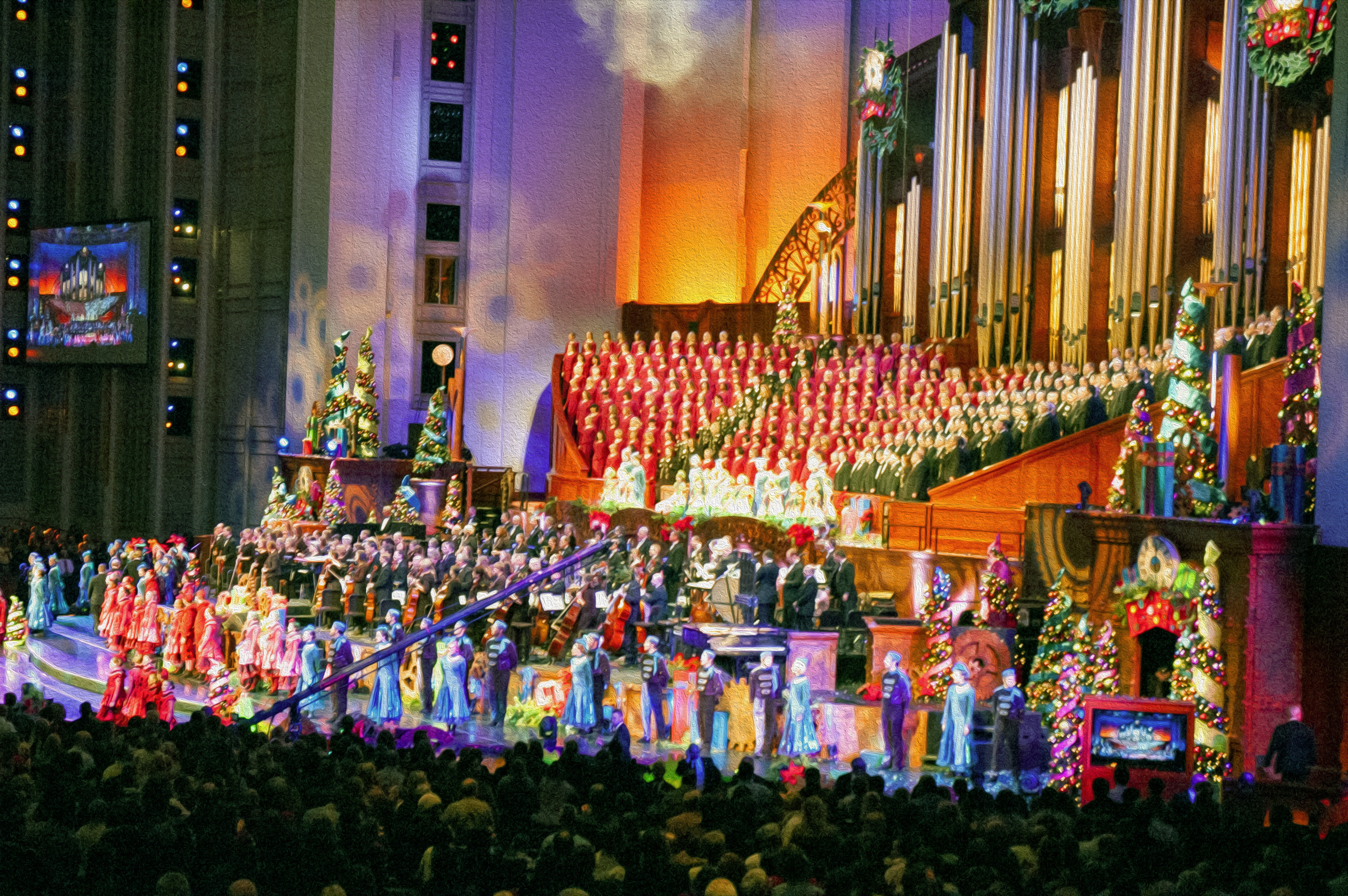 Mormon Tabernacle Choir performing at Temple Square in 2014